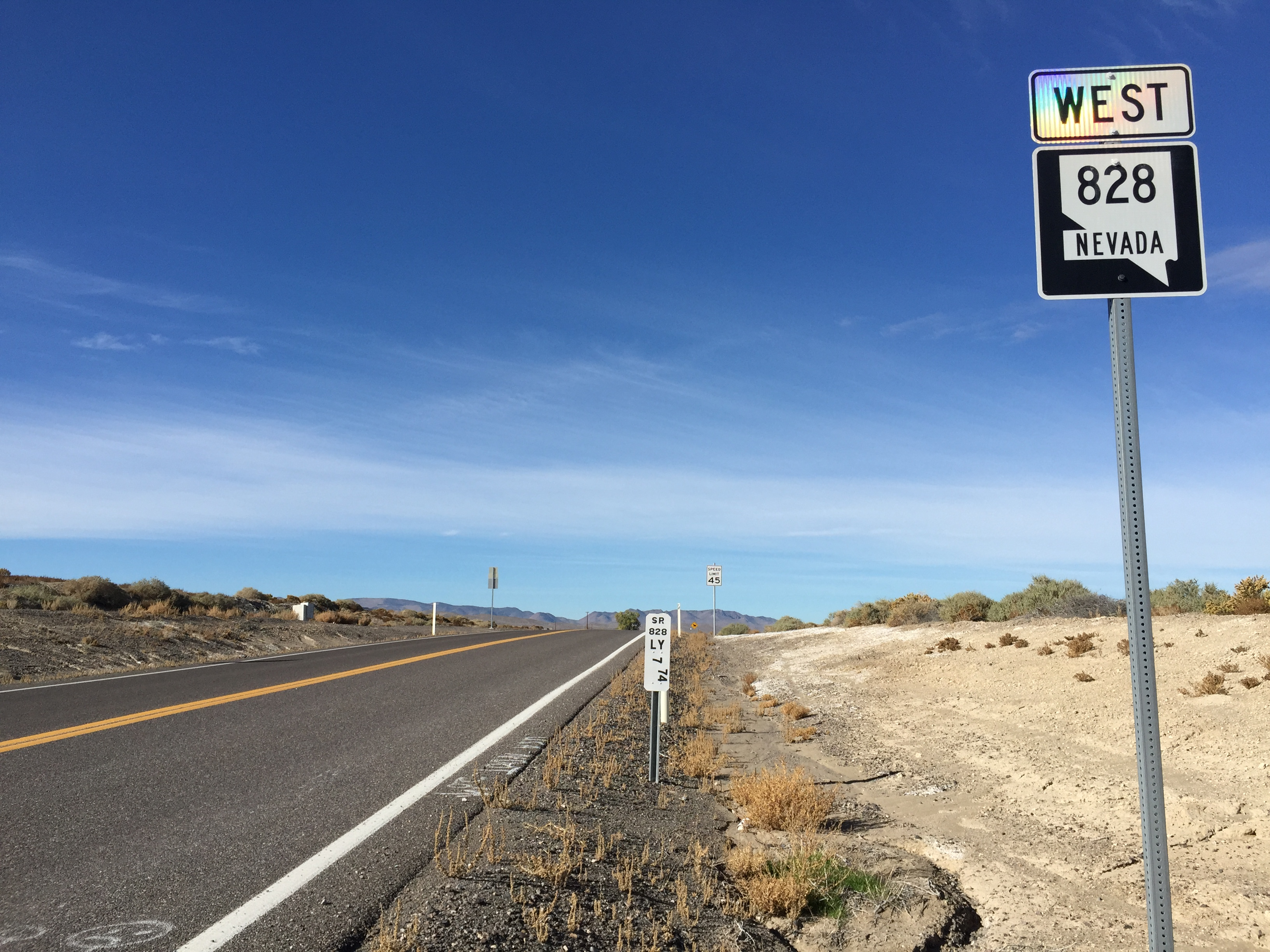 View west from the east end of Nevada State Route 828 (Farm District Road) near Fernley, Nevada